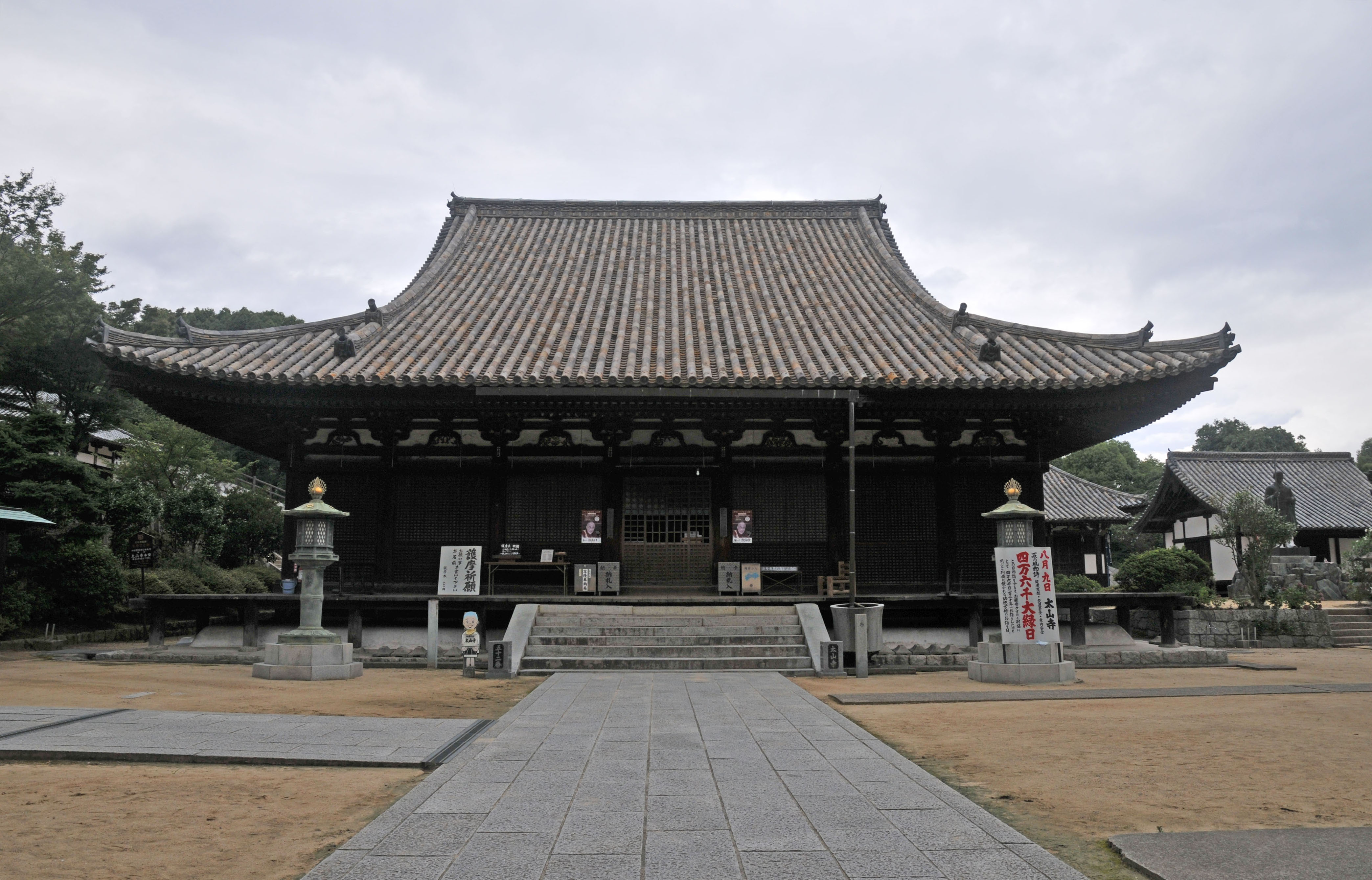 Main temple(Japan's National Treasure), Taisan-ji